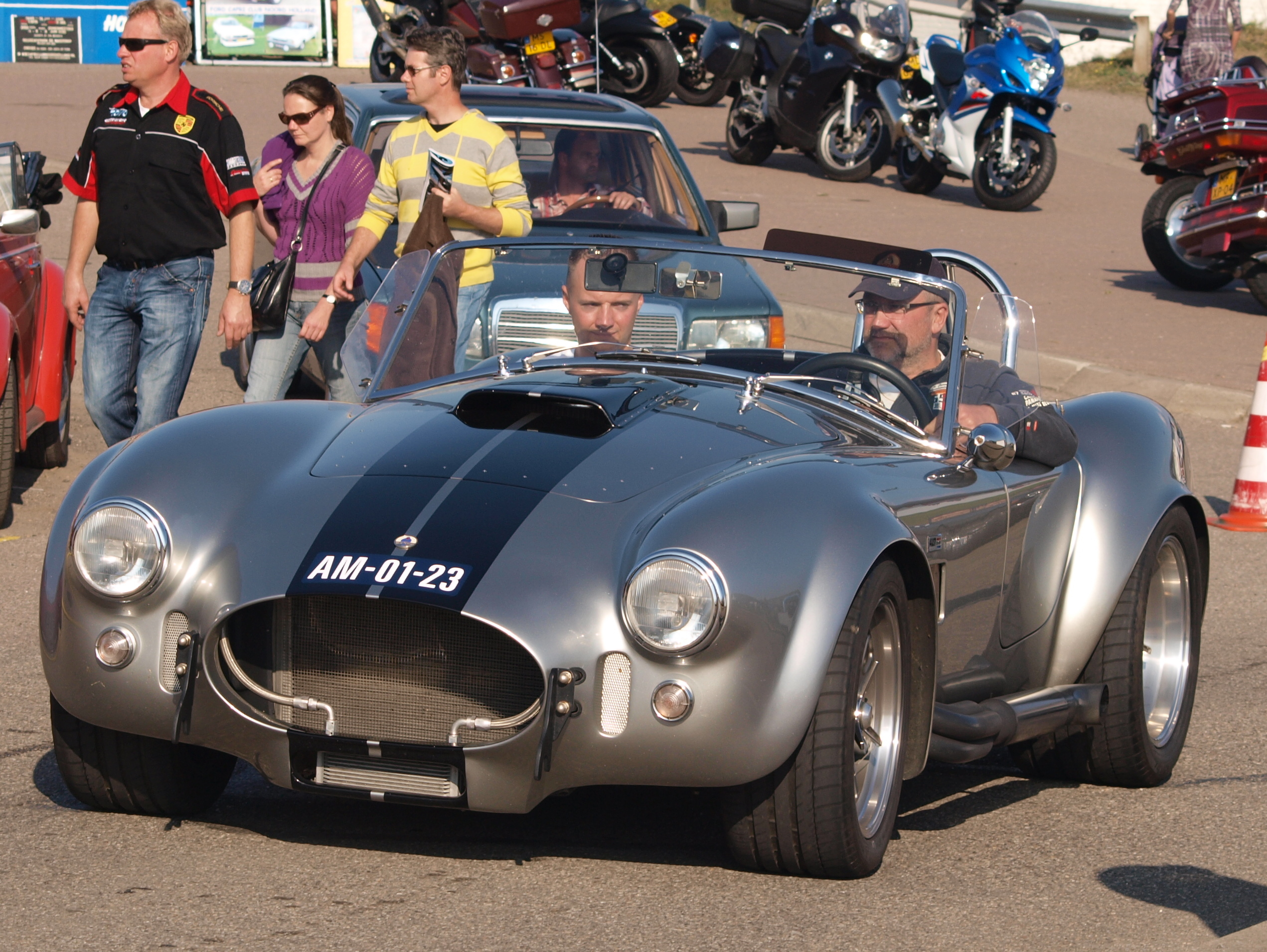 Photographed at the Nationaal Oldtimer Festival Zandvoort 2009, The Netherlands. OLYMPUS DIGITAL CAMERA